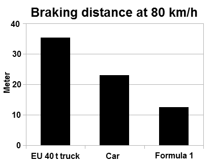 Braking distance at 80 km/h in Meter EU 40 to truck, normal car, Formula 1 fully loaded numbers ADAC.de 9/2015 and Auto Motor und Sport